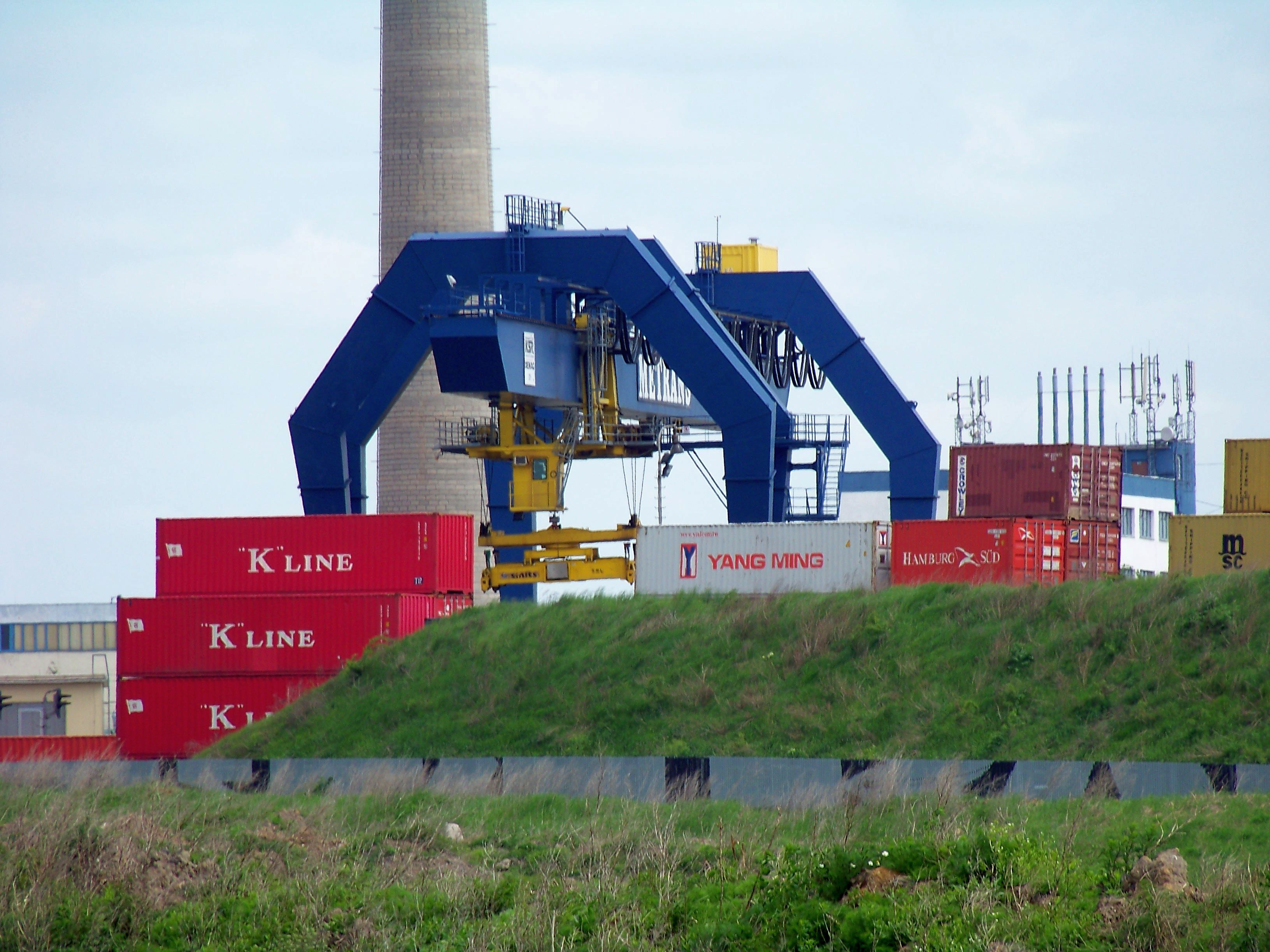 Uhříněves, Prague, the Czech Republic. A container terminal.